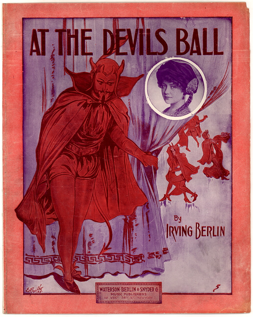 "At the Devil's Ball" sheet music (page 1 of 5)